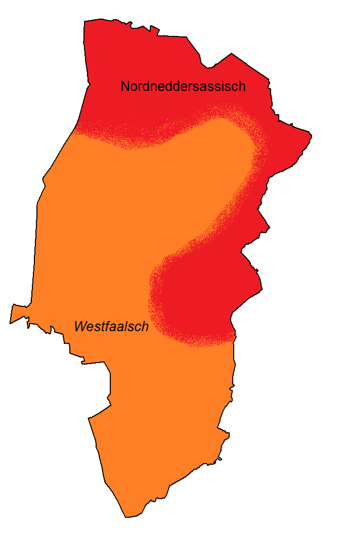 A map of the Emsland district, showing the dialect borders in the region, as shown by the Niedersächsischer Wörterbuch (Low Saxon dictionary). Red is Northern Low Saxon and orange is Westphalian.